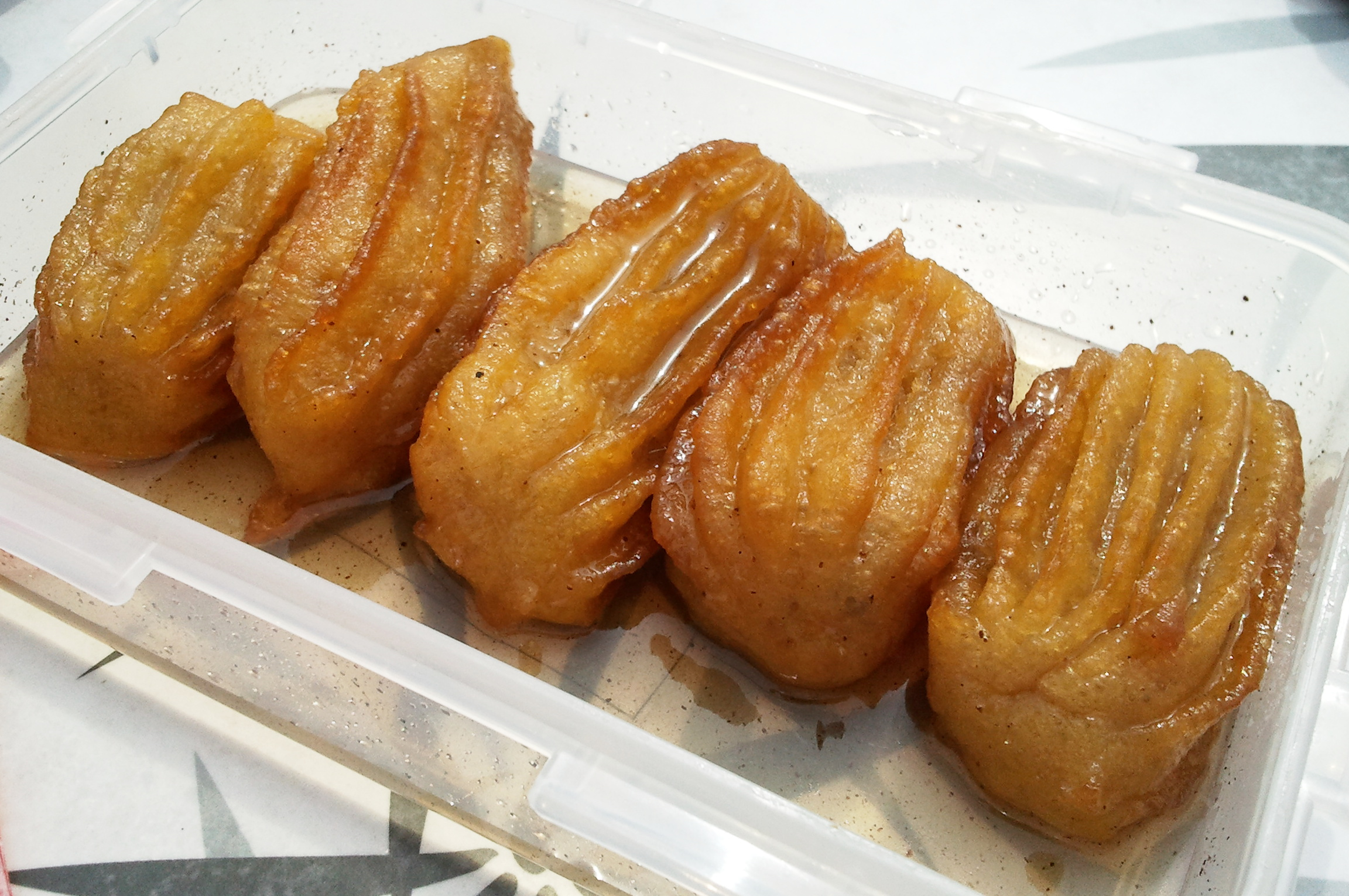 Tulumba.